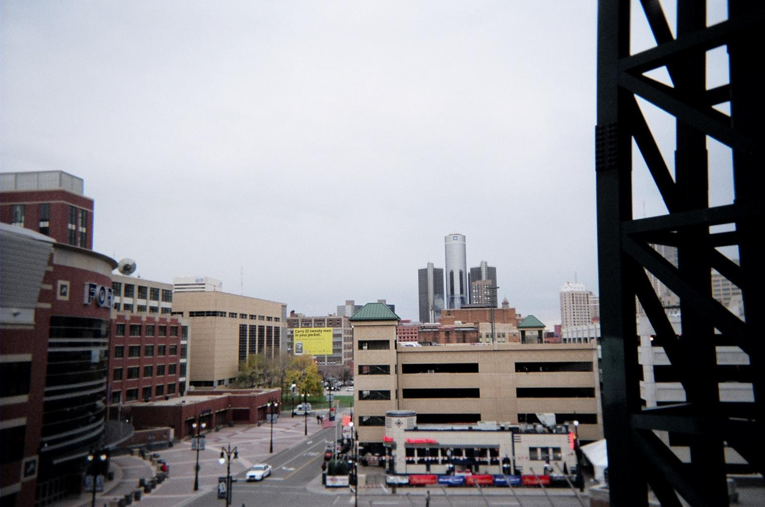 self made by user Category:Images of Detroit, Michigan Category:Images of metropolitan Detroit Category:Images of Michigan